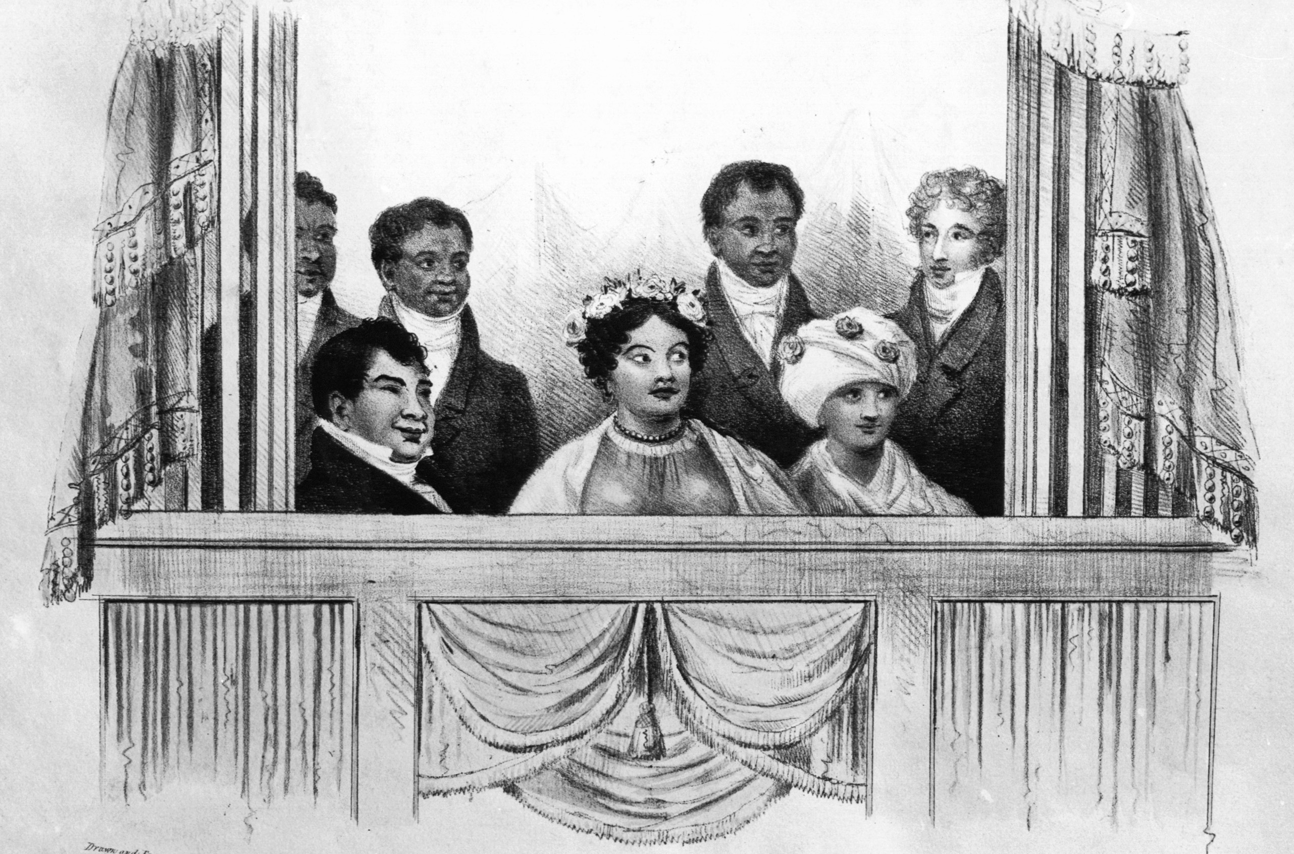 King George IV’s Royal Box at the Theater Royal on Drury Lane on June 4, 1824. Seated, left to right, are King Kamehameha II, Queen Kamamalu, and Liliha and standing, left to right, two unknown Hawaiians, Boki, and Frederick C. Byng.